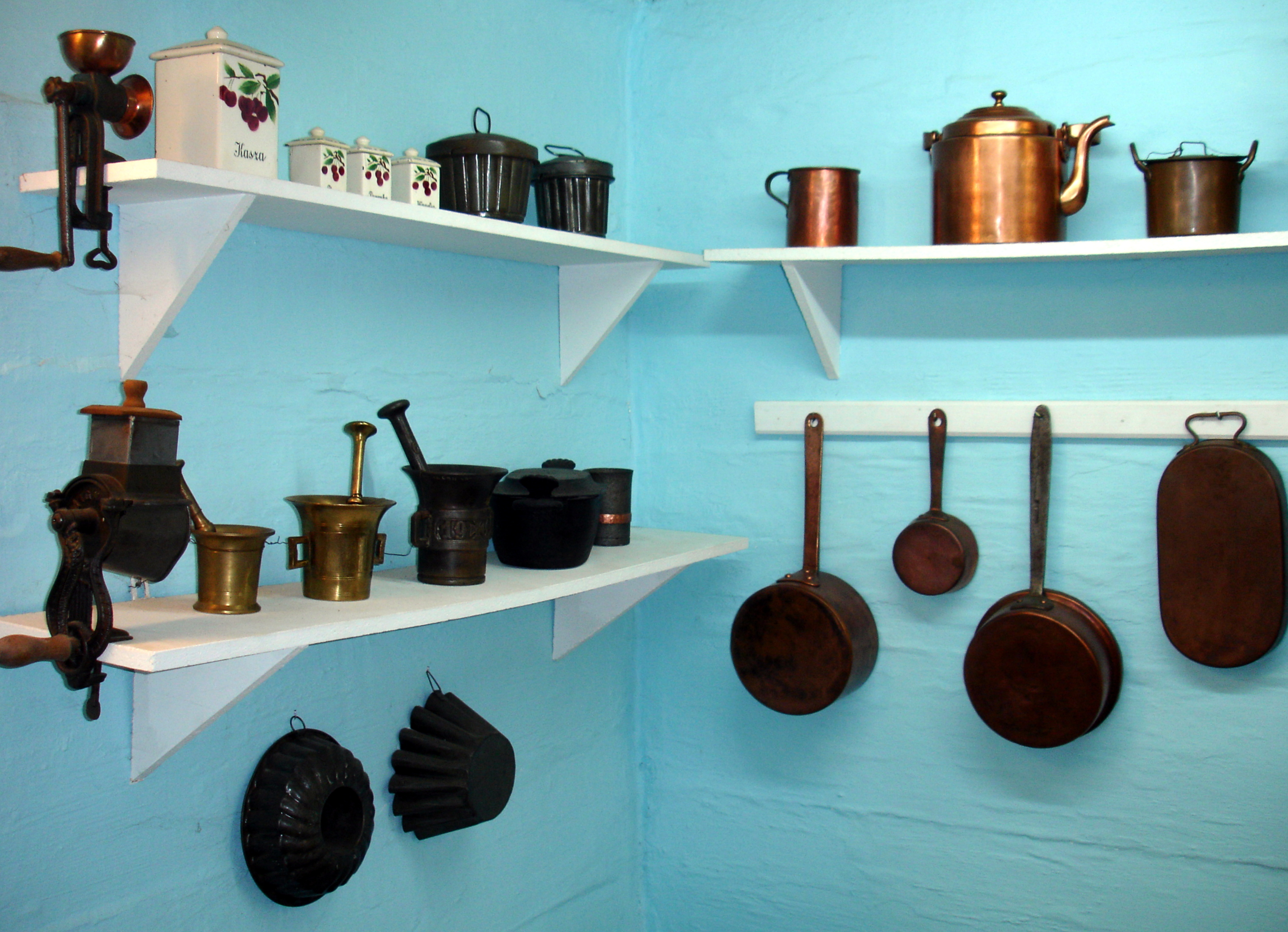 Historical kitchens in Poland